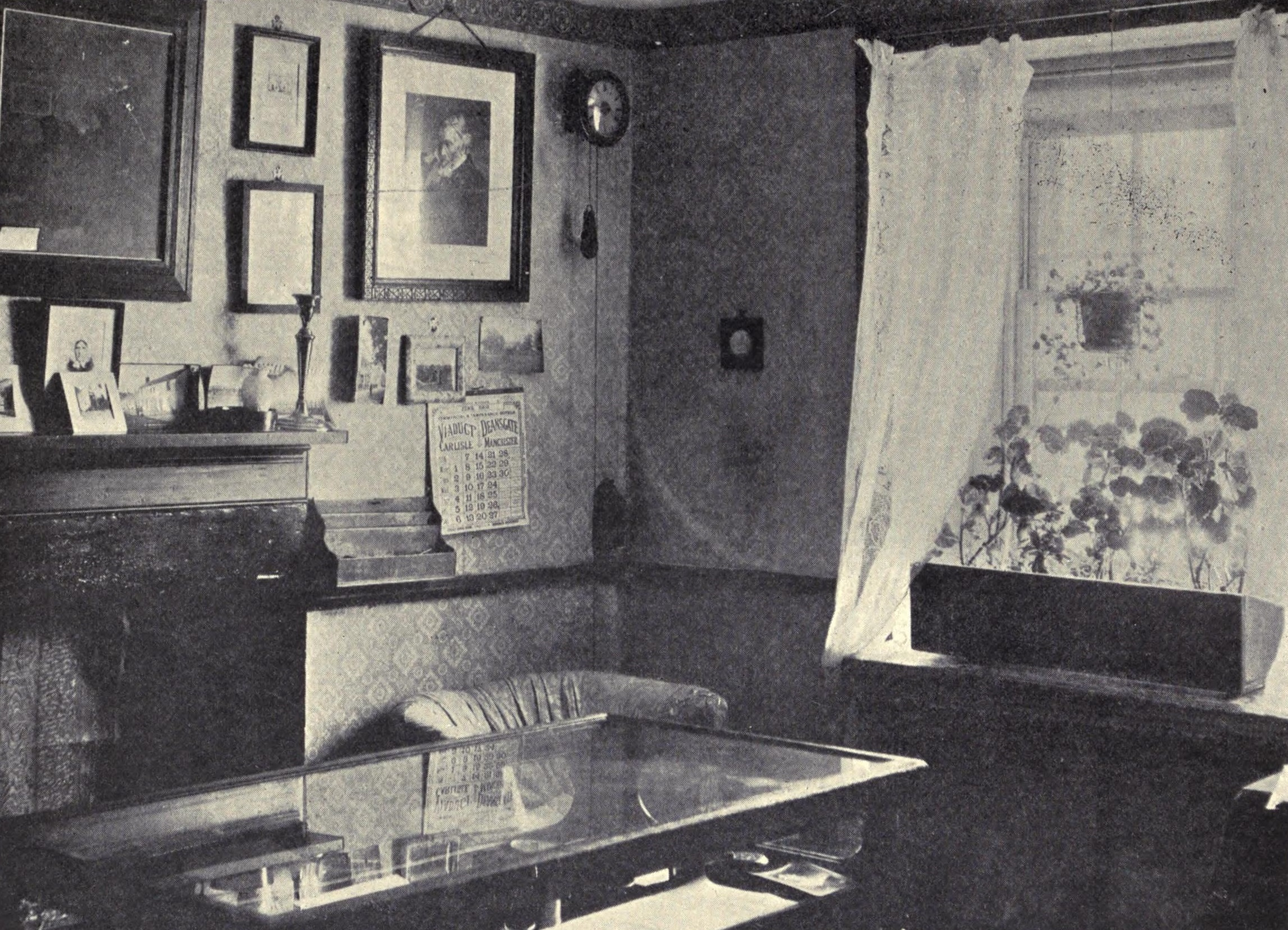 Larger Room in Carlyle's Birth-House